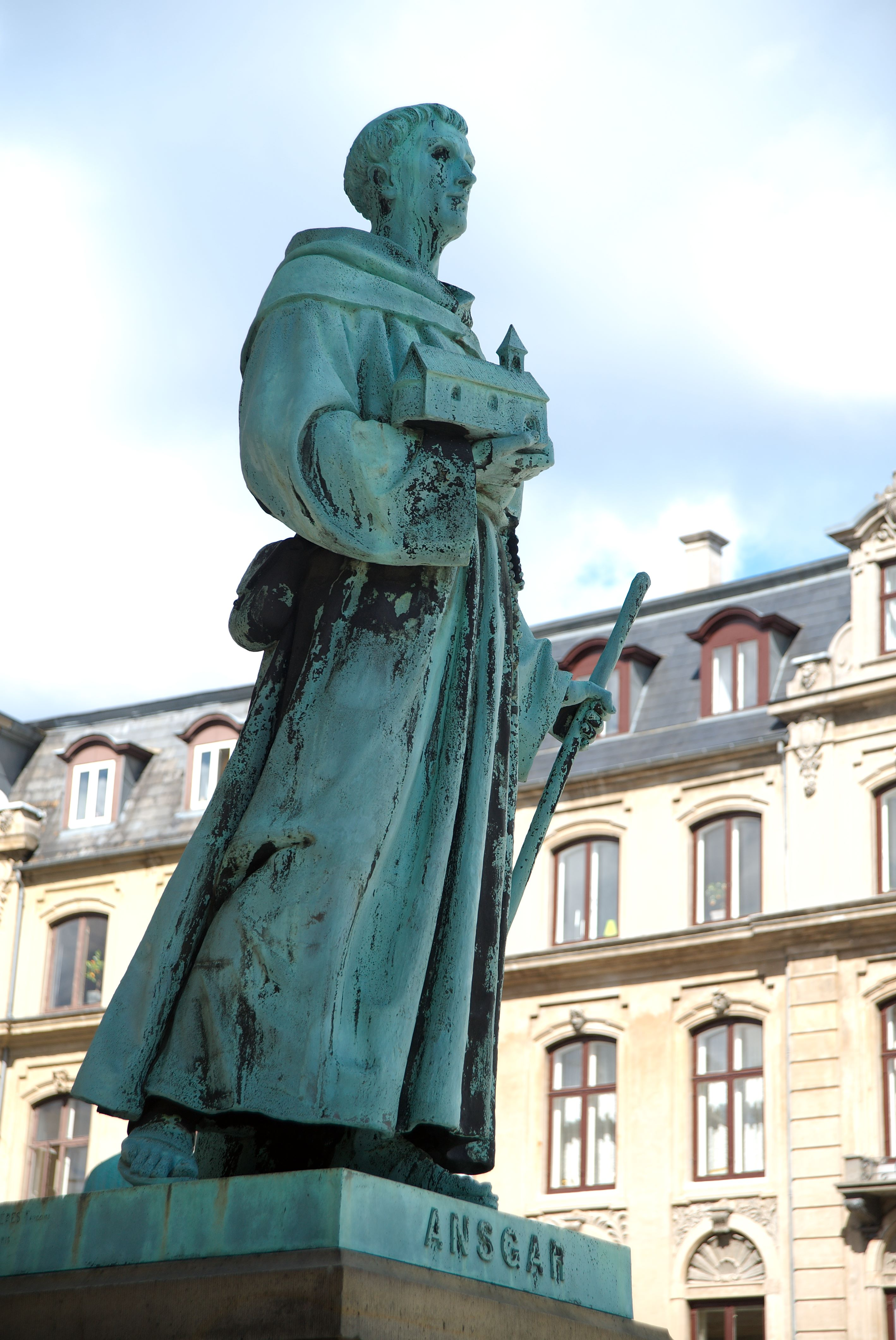 Statue of Saint Ansgar on the exterior of Marmorkirken in Copenhagen. Made by Theobald Stein in 1894.